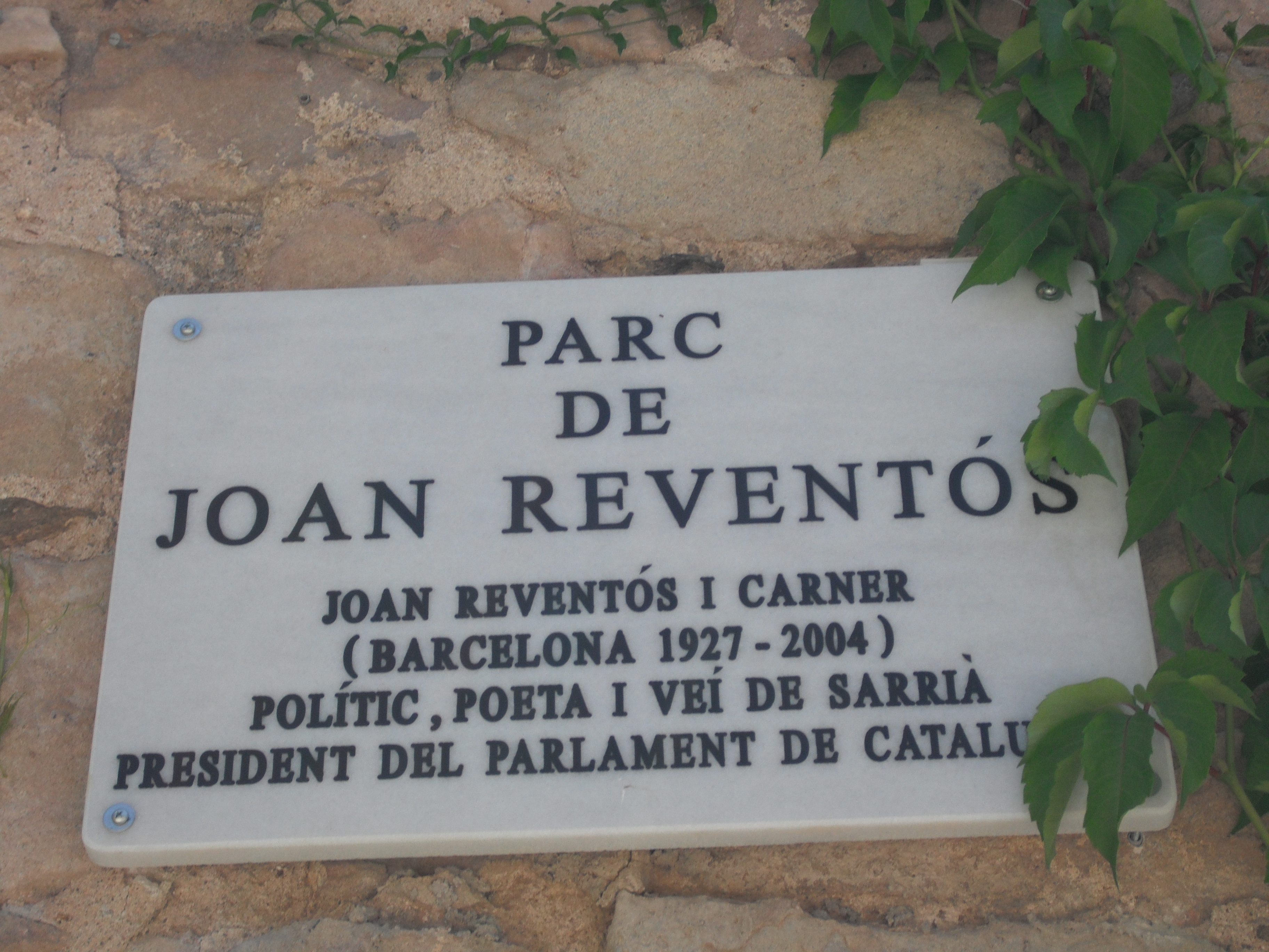 Plate of the Joan Reventós' Park in Barcelona.